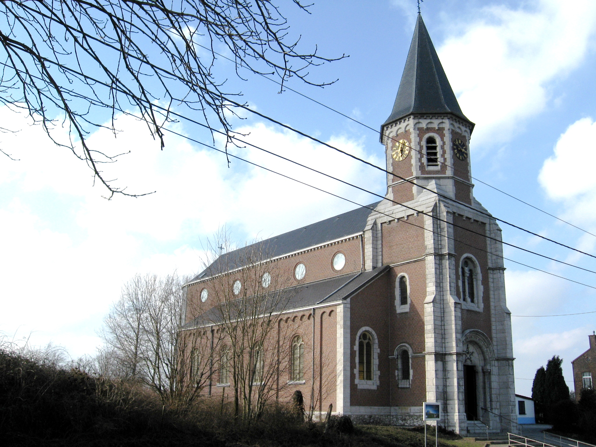 Church of Saint Bartholomew in Juprelle, Liège, Belgium